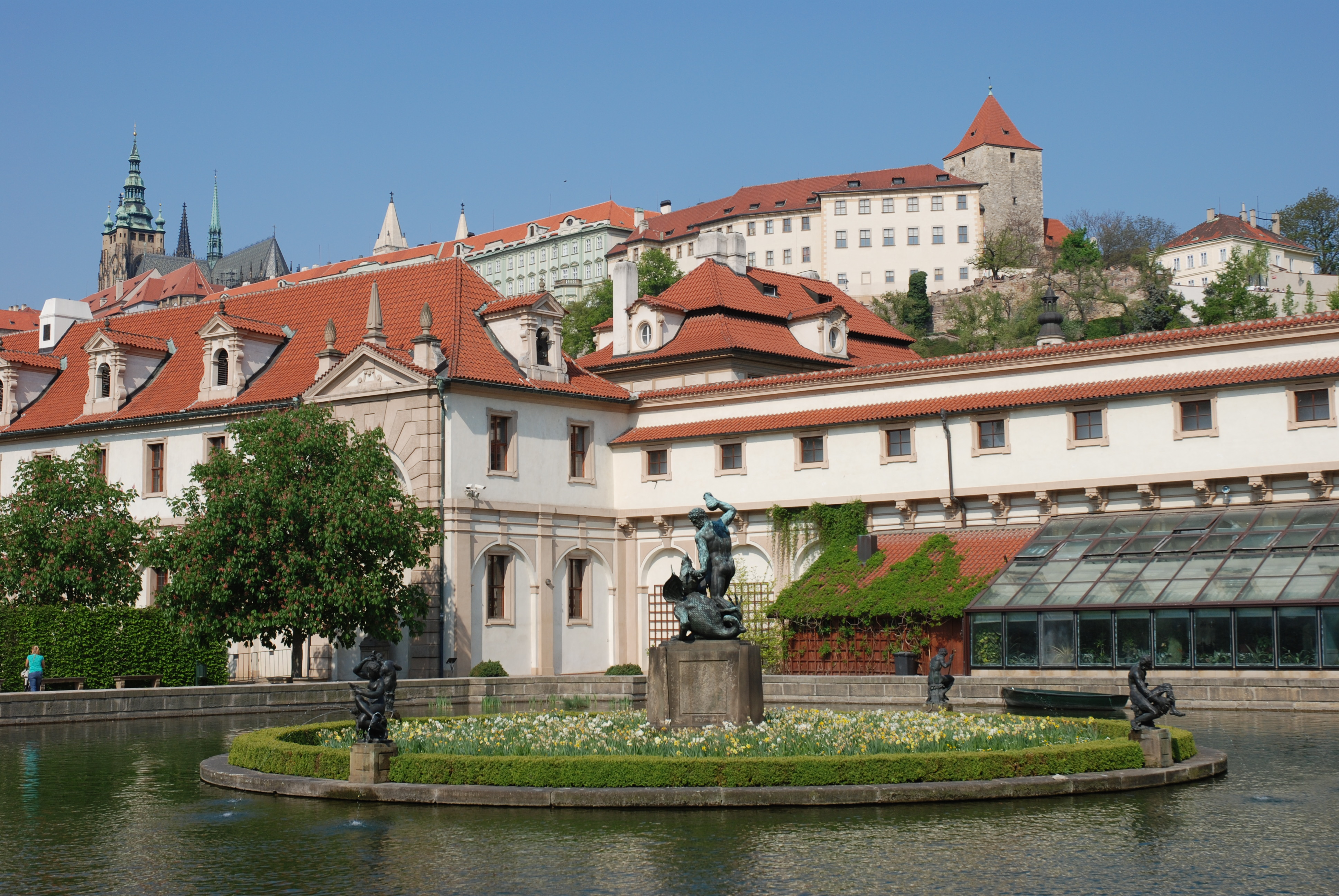 Adriaen de Vries Hercules statue in the Wallenstein Palace Garden, Prague